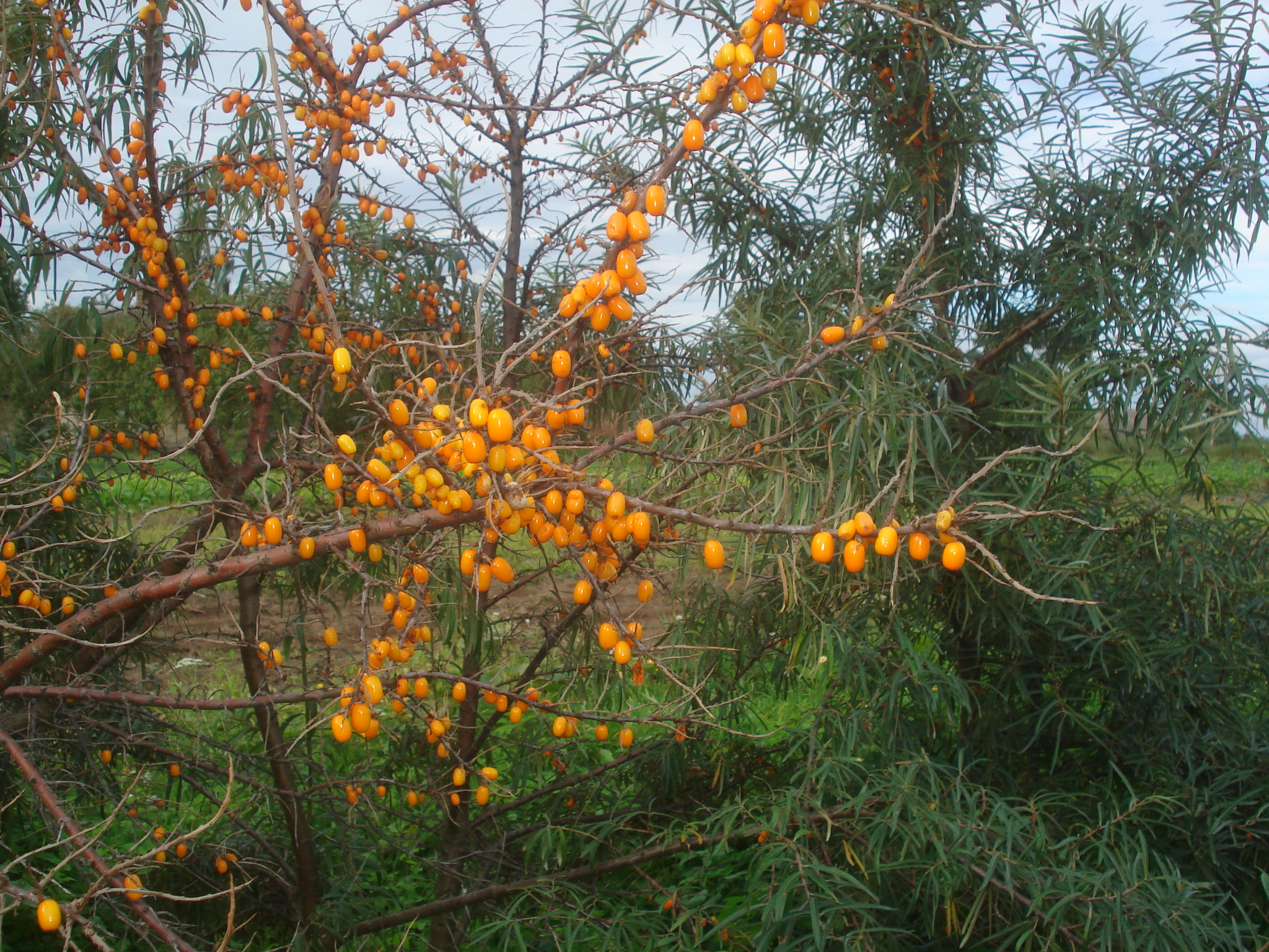 The sea-buckthorn (Hippophaë rhamnoides). Found in Kauguri near Riga town, Latvia